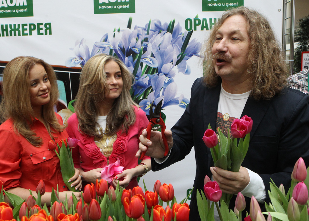 “"Flowers from a Star" holiday event”. Singer and composer Igor Nikolayev is taking part in "Flowers from a Star" holiday event dedicated to Women's Day March, 8th.